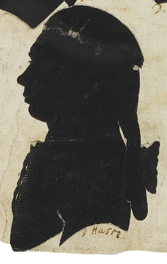 Johann Gottfried Hasse (1759–1806) was German philosopher, theologian and expert of oriental languages.